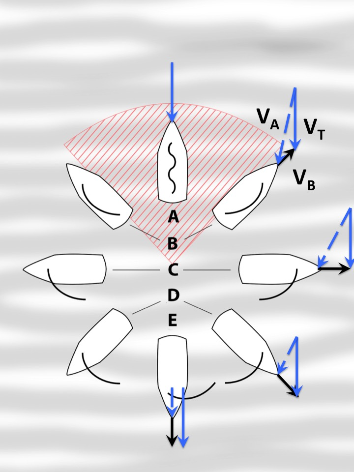 The arrow represents the direction of the wind. The red is the "no sail zone" because it is impossible to sail into the wind. A. No Go Zone — 0-30° B. Close Hauled — 30-50° C. Beam Reach — 90° D. Broad Reach — ~135° E. Running — 180° Vectors are: True Wind (VT)), Boat Speed (VB)), and Apparent Wind (VA)).